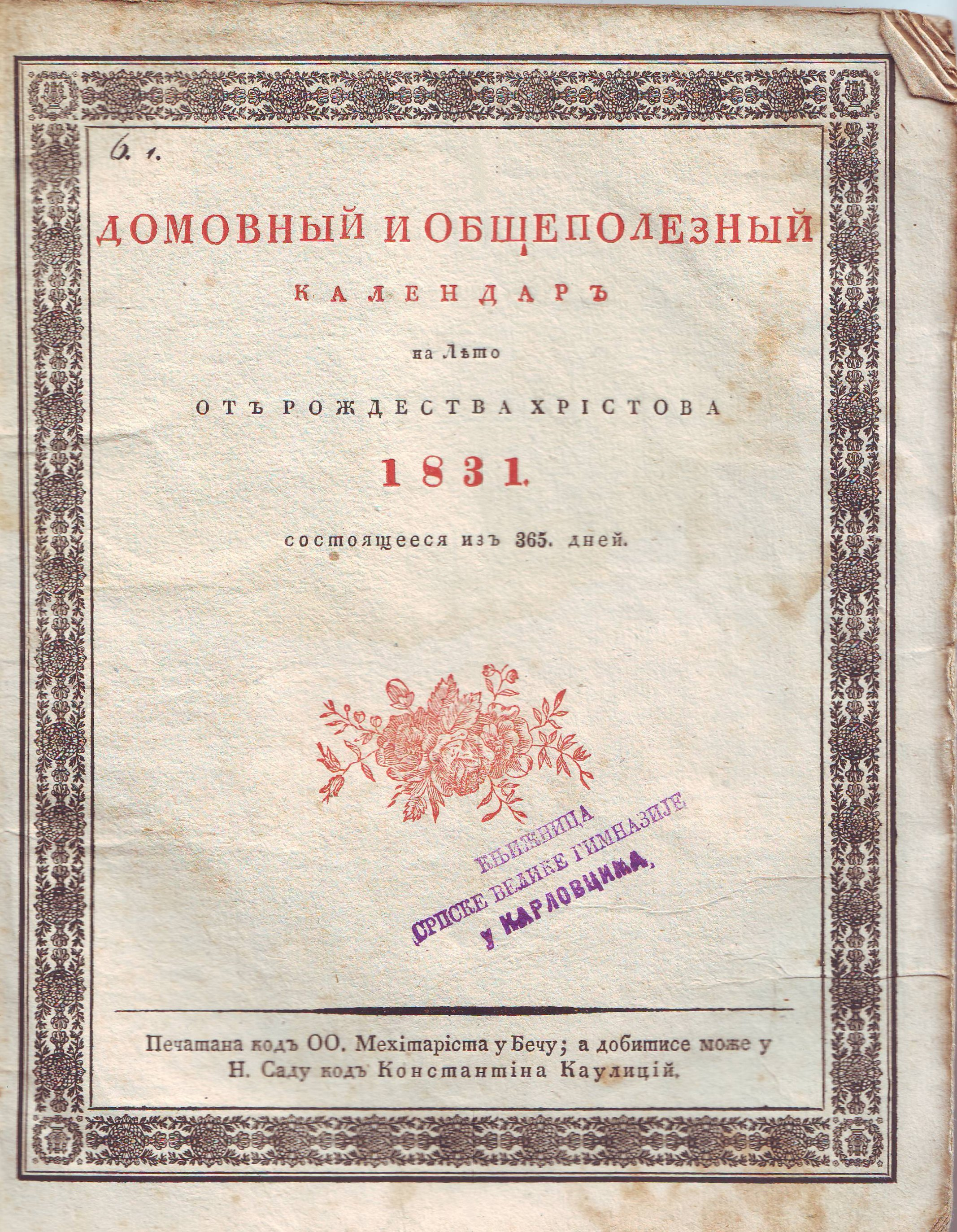 1831 edition of the Domovni i opštepolezni narodni kalendar. Srpski (latinica): Izdanje Domovnog i opštepoleznog narodnog kalendara za 1831. godinu.